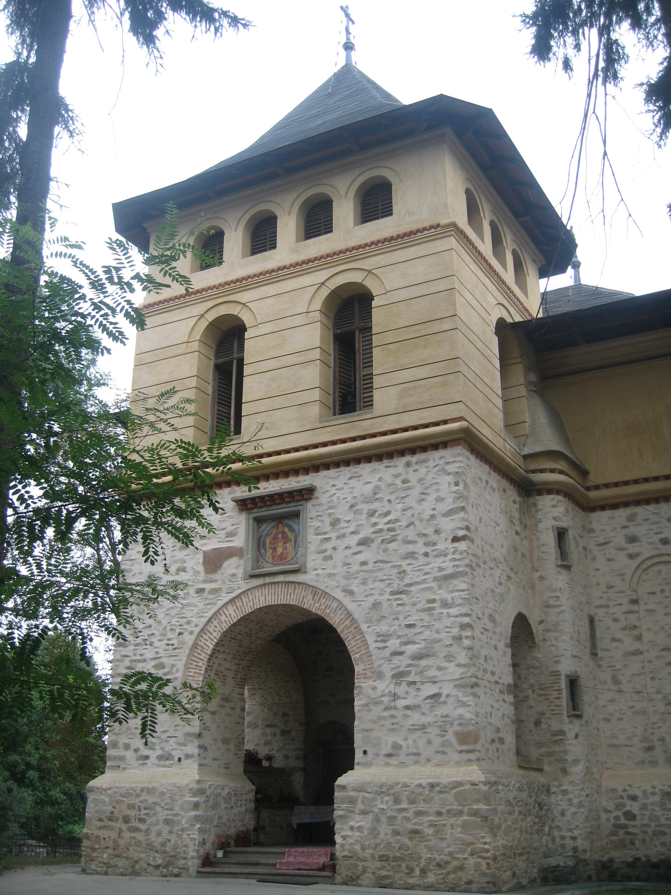 Mirăuţi Church in Suceava.